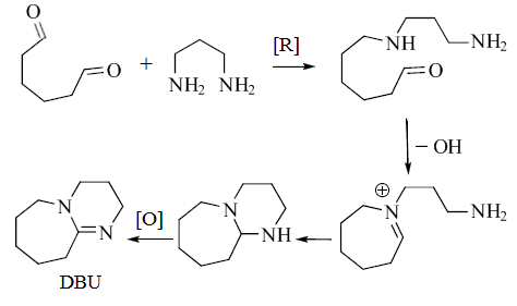 REGALADO DBU BIOSYNTHETIC HYPOTHESIS SCHEME